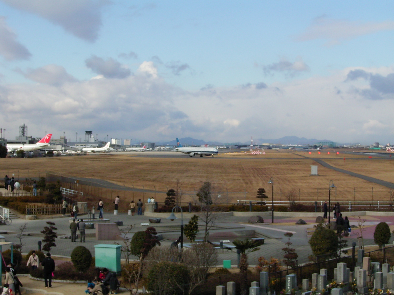 Air-front-oasis a park near Nagoya airport(Komaki)